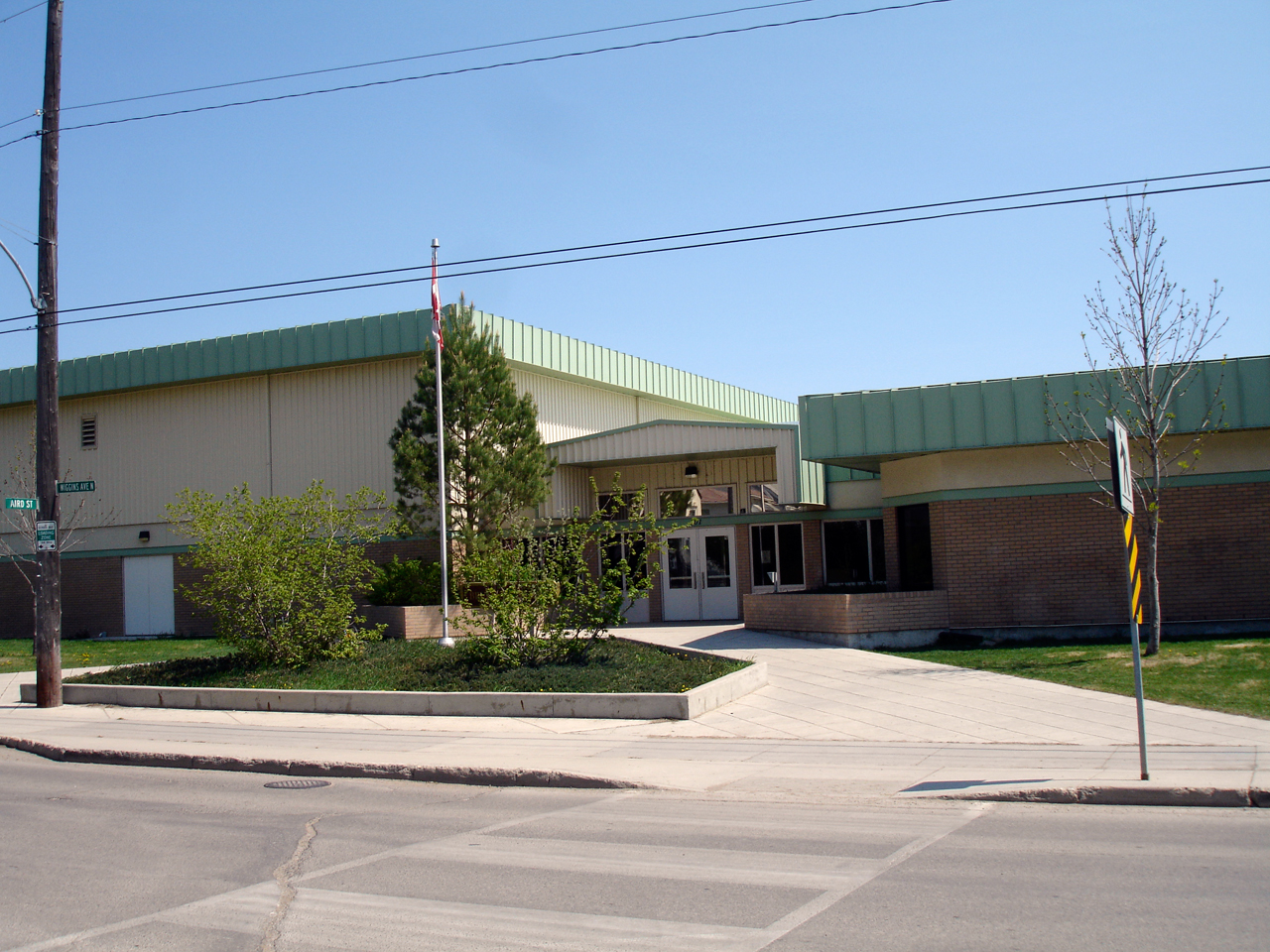 Brunskill School, a public elementary school in the neighbourhood of Varsity View, in the city of Saskatoon, Saskatchewan, Canada.